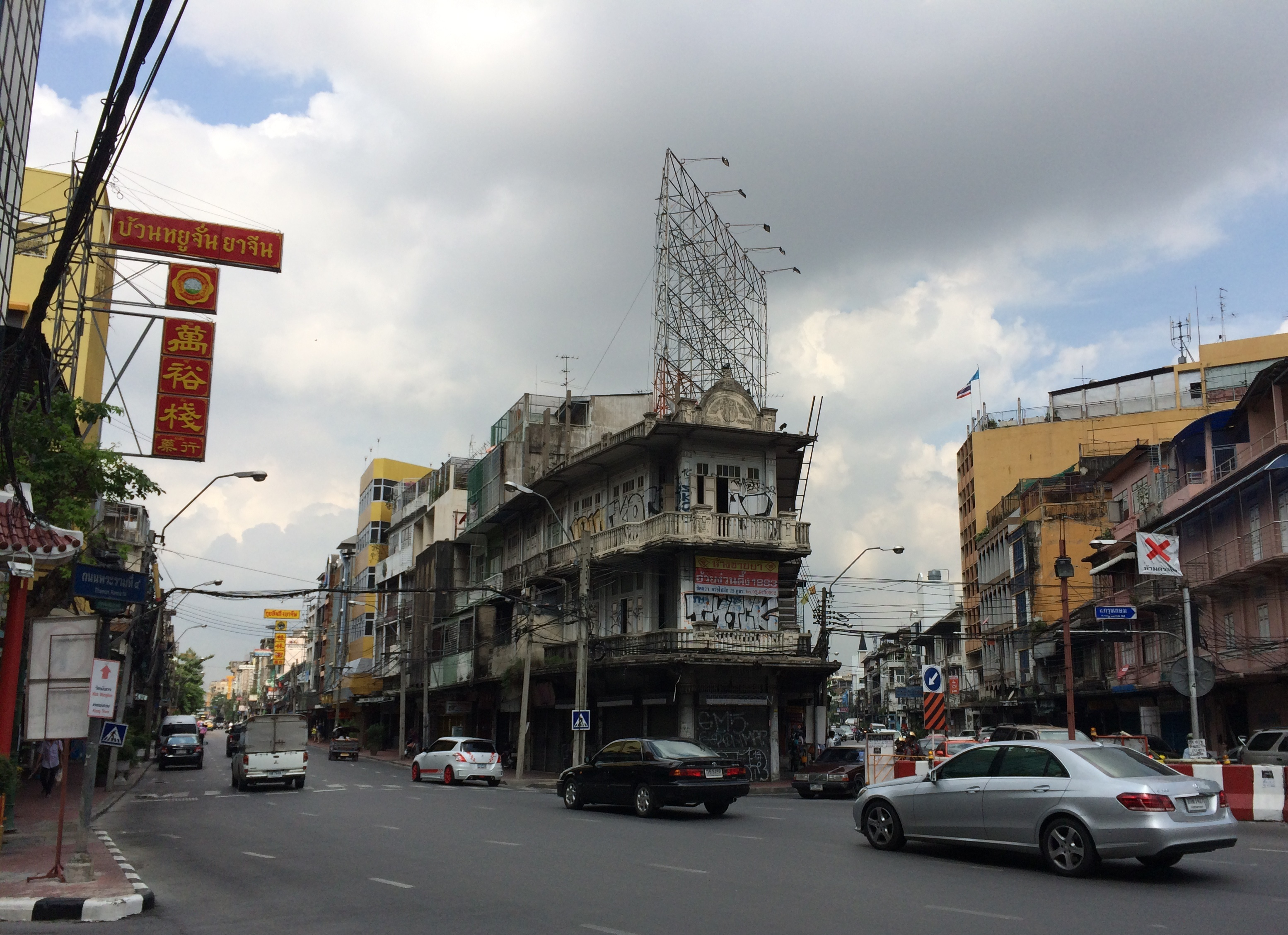 Image from the main street (Thanon) Charoen Krung, in central Bangkok, Thailand.